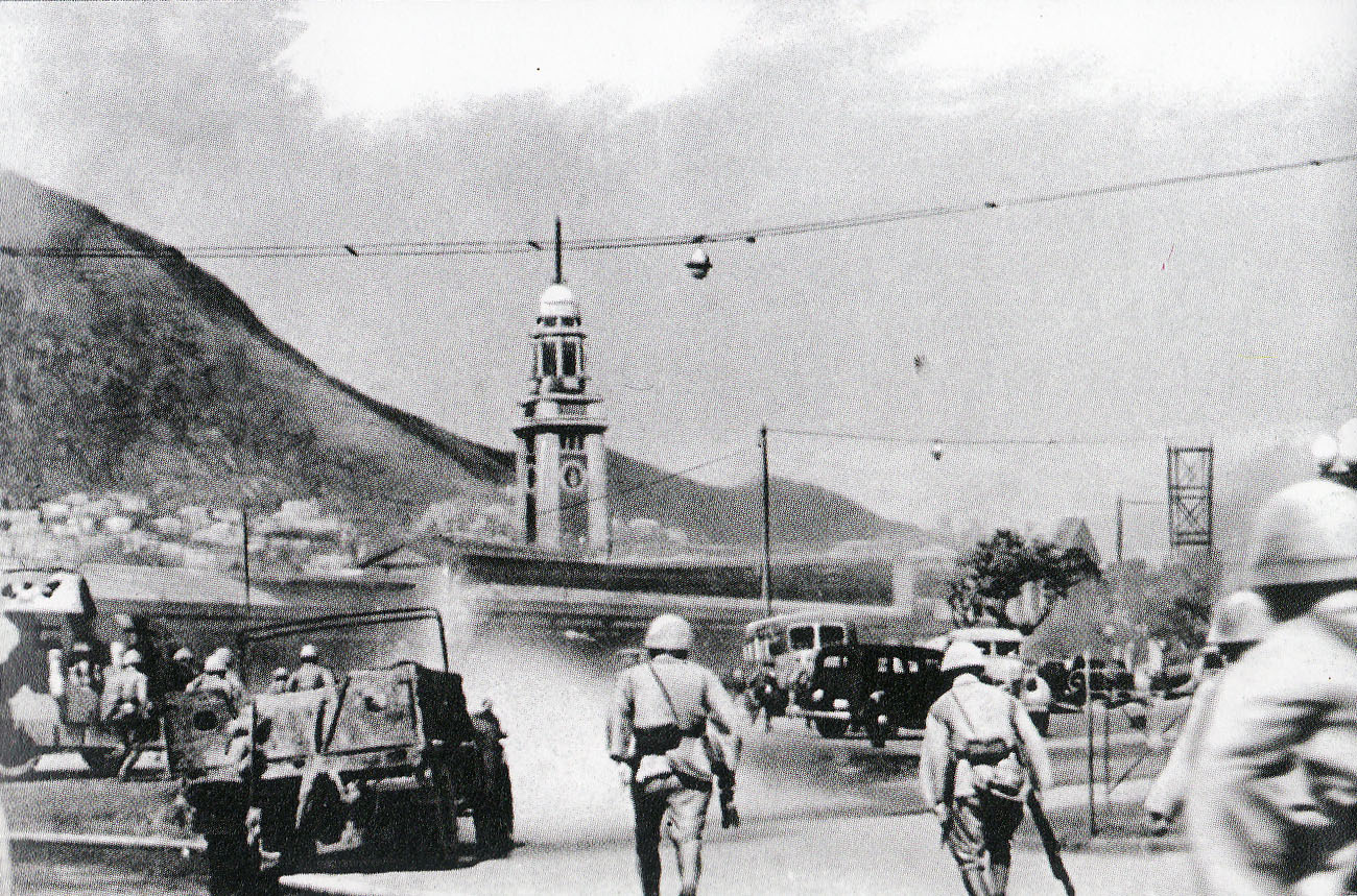 Japanese Army assault on Tsim Sha Tsui Station on 1941